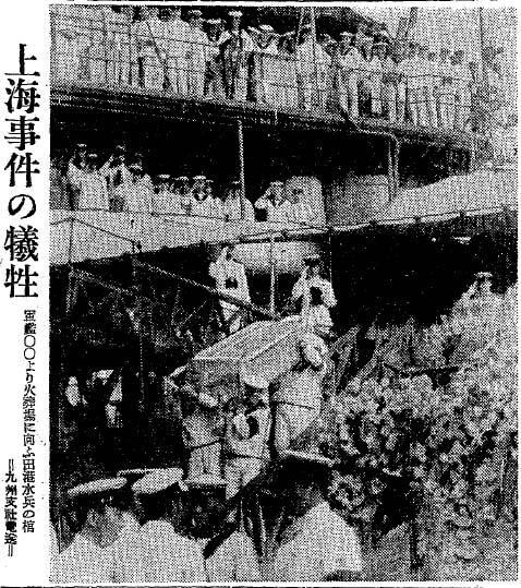 Coffin of First-Class Seaman Tomomitsu Taminato